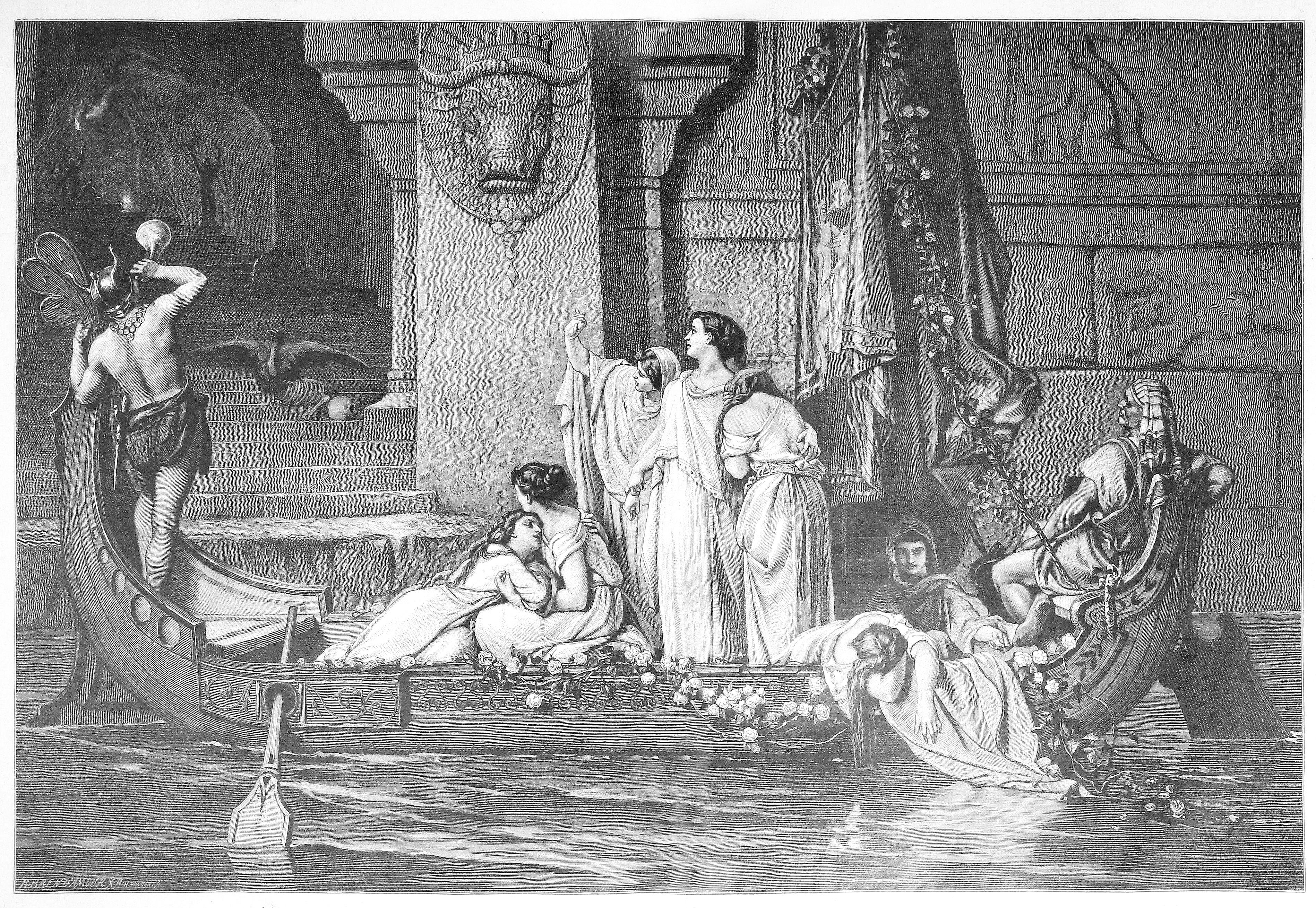 Image from page 380 of journal Die Gartenlaube, 1886.